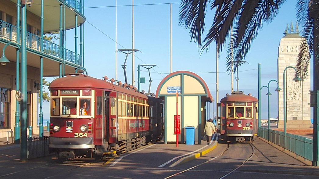 H-class trams at Moseley Square terminus, Glenelg, just before start of upgrade of Glenelg tramline.